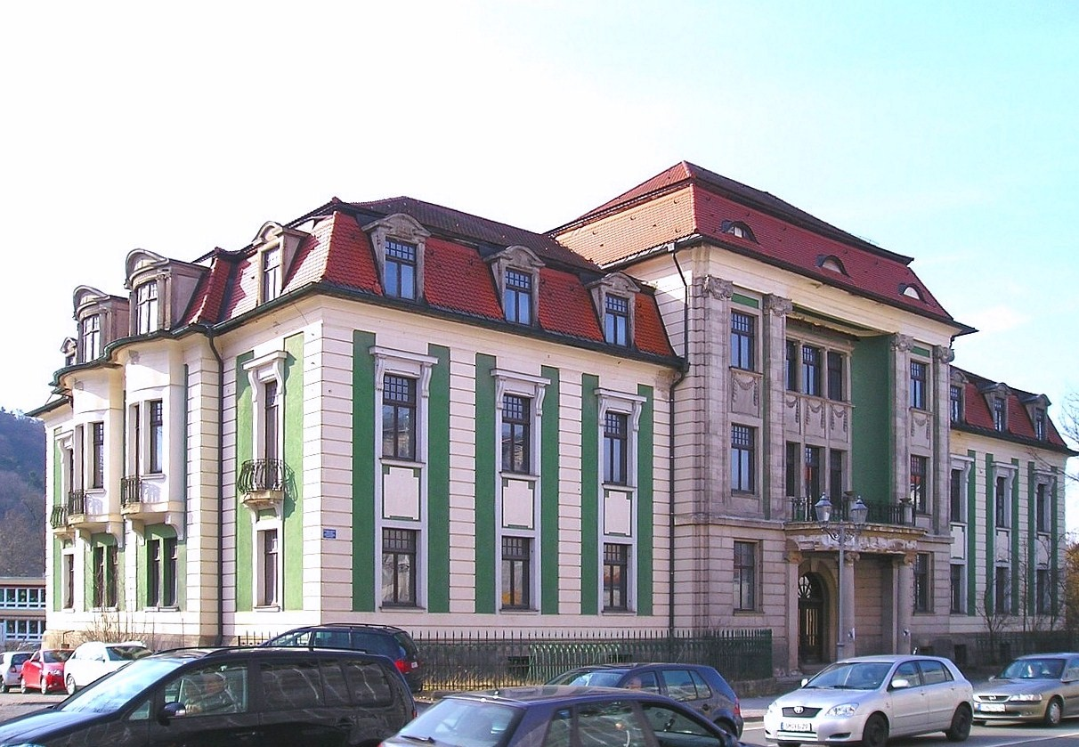 The villa of banker Gustav Strupp in city Meiningen, germany. He founded in the jear 1905 the “Bank for Thuringia”.